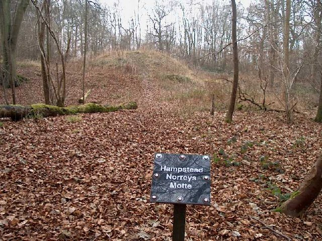 Hampstead Norreys Motte. Hampstead Norreys Motte. This small mound is in woodlands SW of Hampstead Norreys Berkshire. Take the footpath through the church grounds and then turn left into the wood. The mound is a couple of hundred yards on the right.